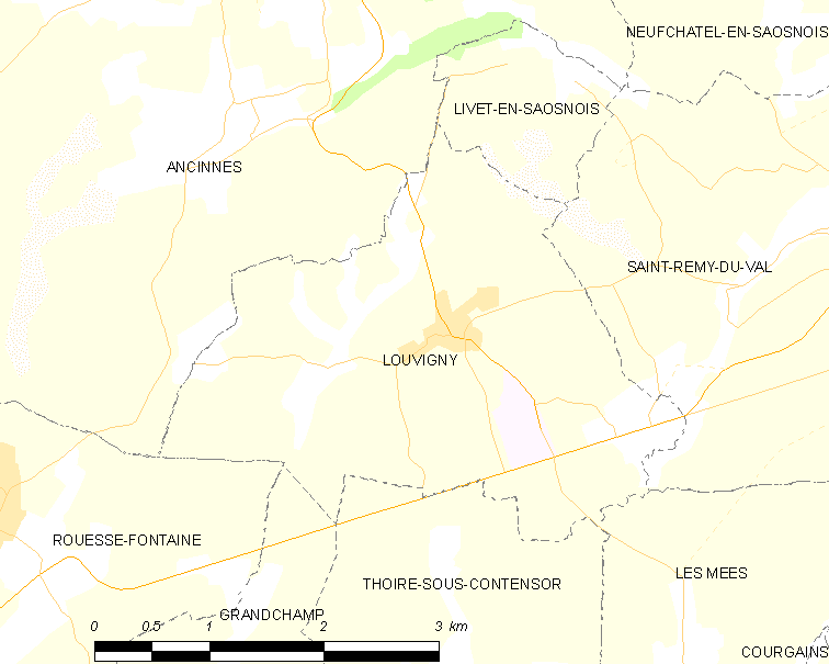 Map of French municipality